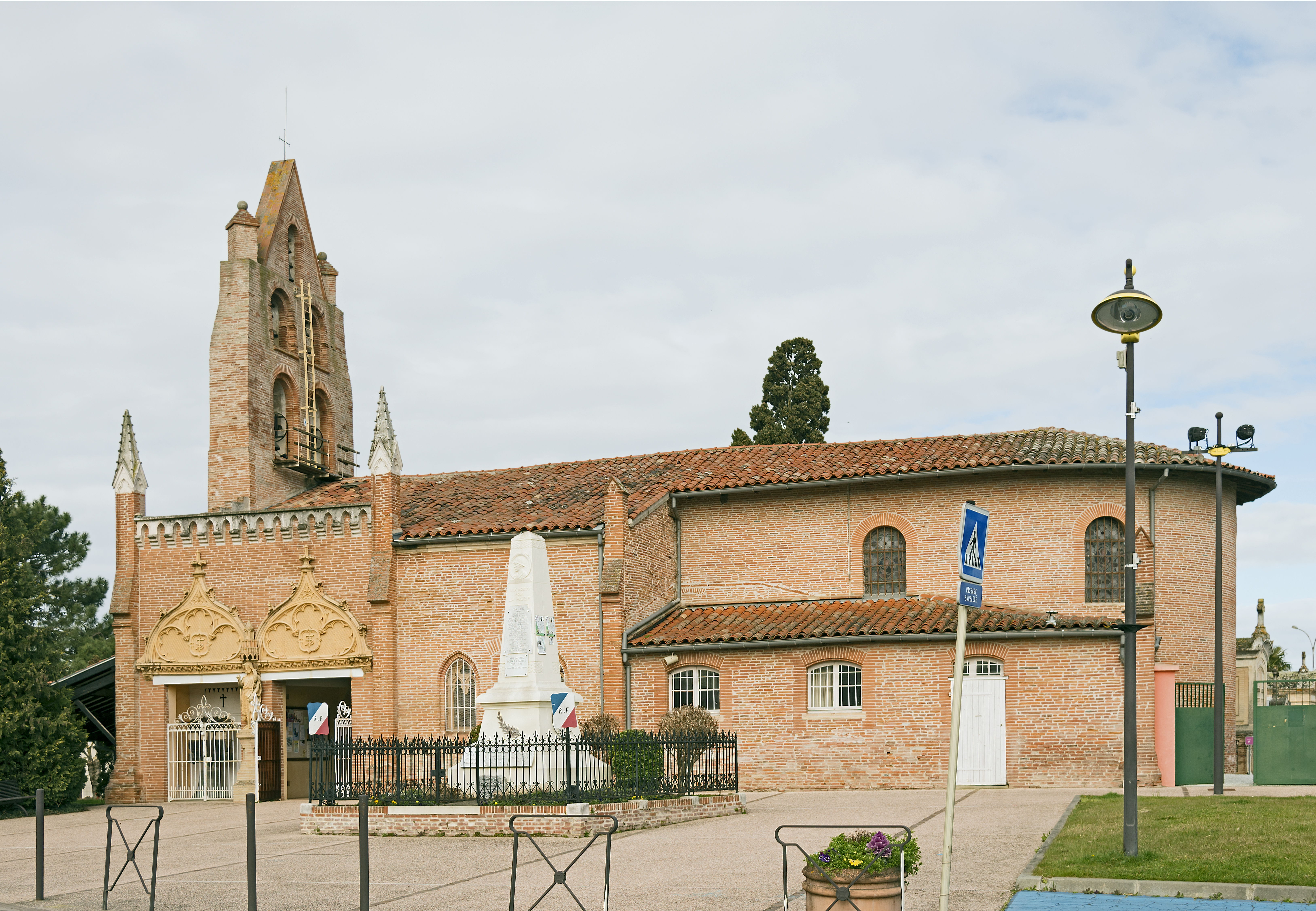 Saint-Jean, Haute-Garonne. The church Saint-Jean Baptiste and the war memorial.